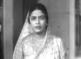 Actress Shakuntala Paranjpye in V. Shantaram's social classic, Duniya Na Mane (1937).